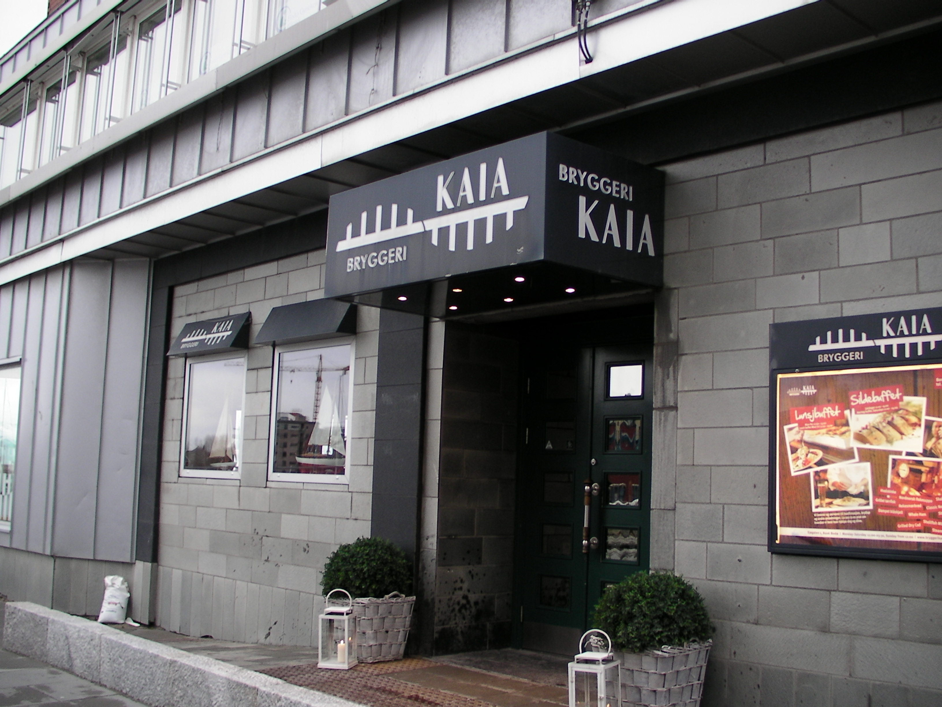 Bryggerikaia Bodo